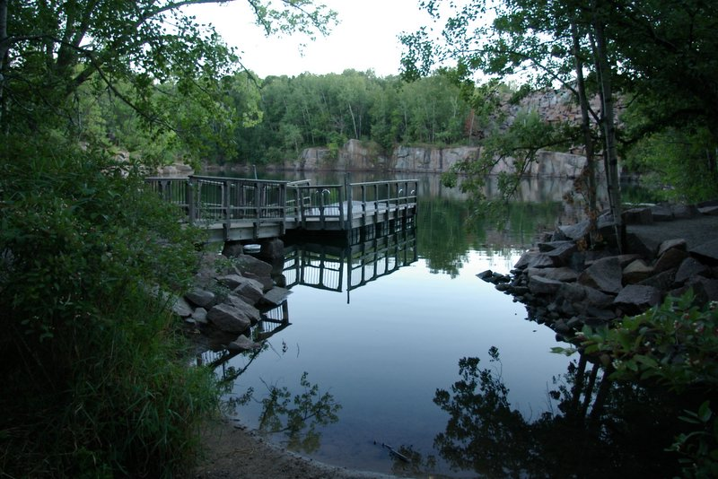 Quarry Park, Waite Park, Minnesota, USA. There are many potential swimming holes (old quarries) at this nature center, but this is the designated swim area.